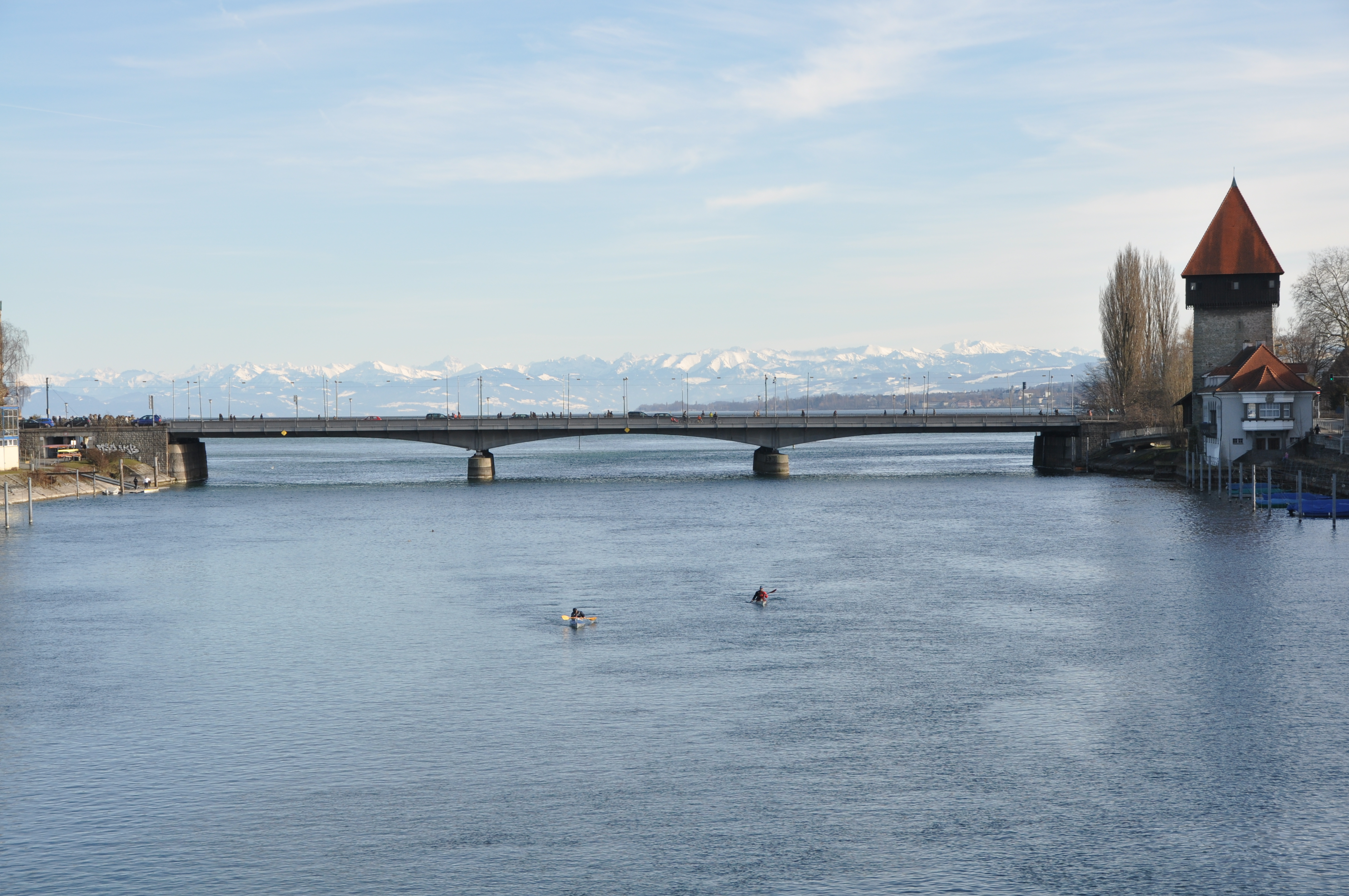 City of Constance; bridge over the Rhine